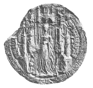 Maria of Castile